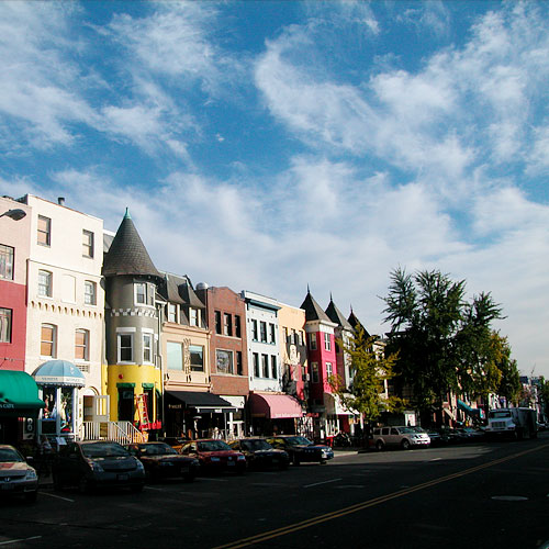 Buildings in Adams Morgan Glowing